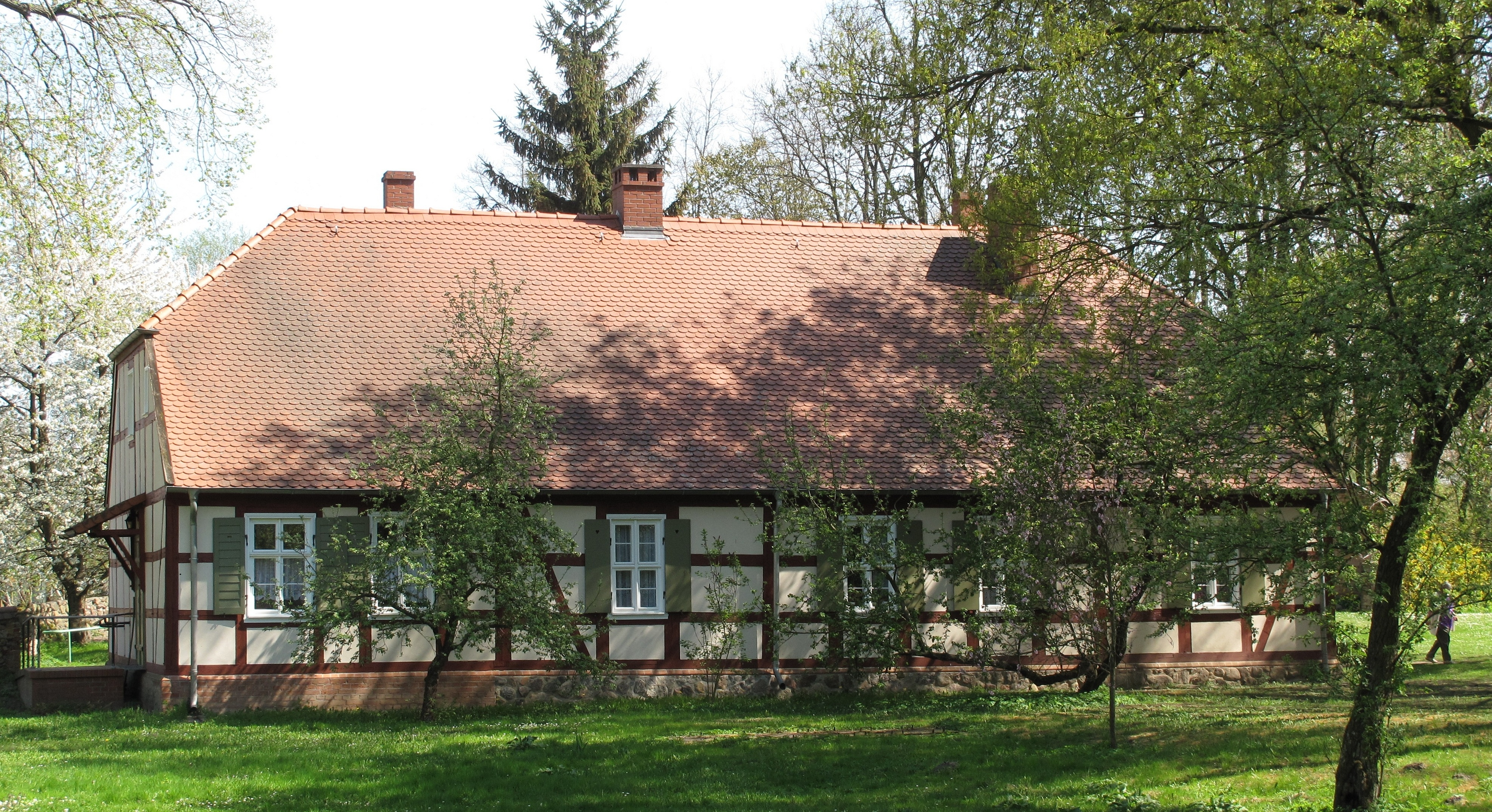 Listed rectory in Altfriedland, a village of the municipality Neuhardenberg in the District Märkisch-Oderland, Brandenburg, Germany. It was built in 1633.